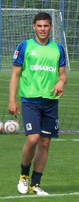 Kevin Volland, 1860 München, training